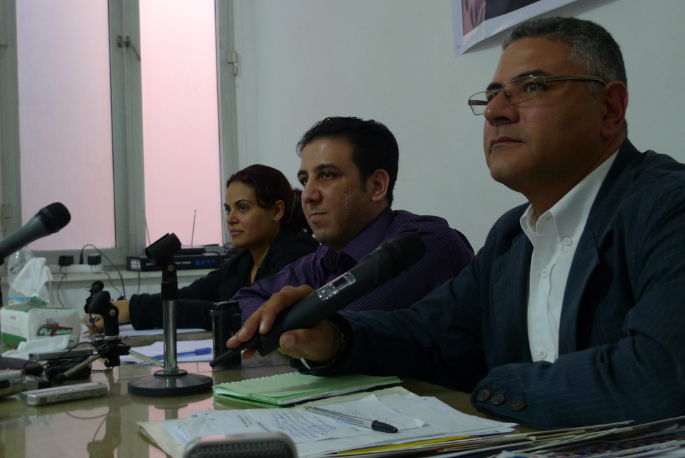 Kareem Amer (C), an Egyptian blogger who served four years in prison and was the first person in the country to be jailed for his online writings, delivers his first public remarks four days before the country's parliamentary elections flanked by his two lawyers. [Evan Hill]